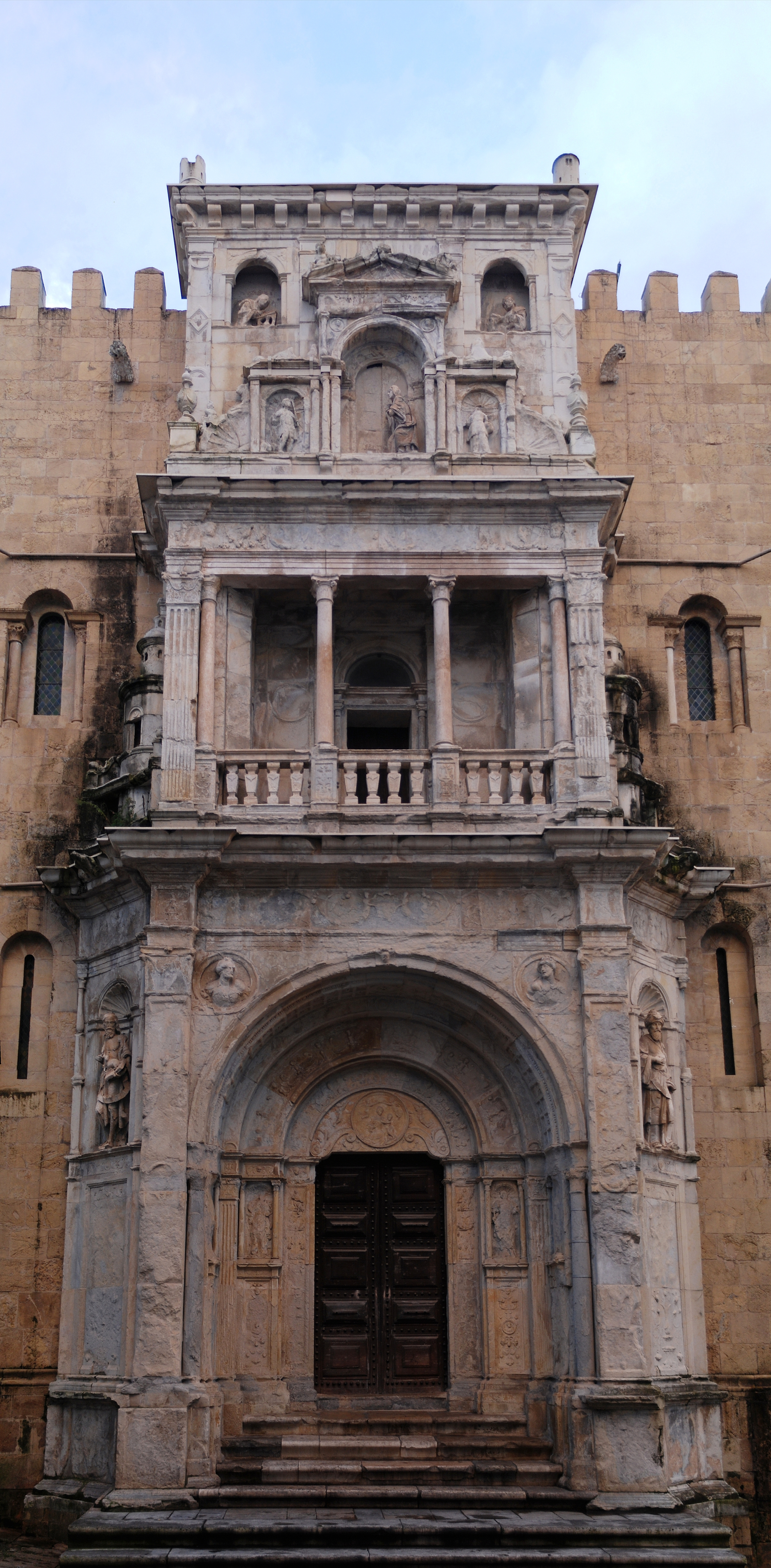 Renaissance portal in the Old Cathedral (Sé Velha) of Coimbra, Portugal